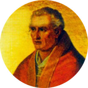 Portait of Pope Eugene IV in the Basilica of Saint Paul Outside the Walls, Rome